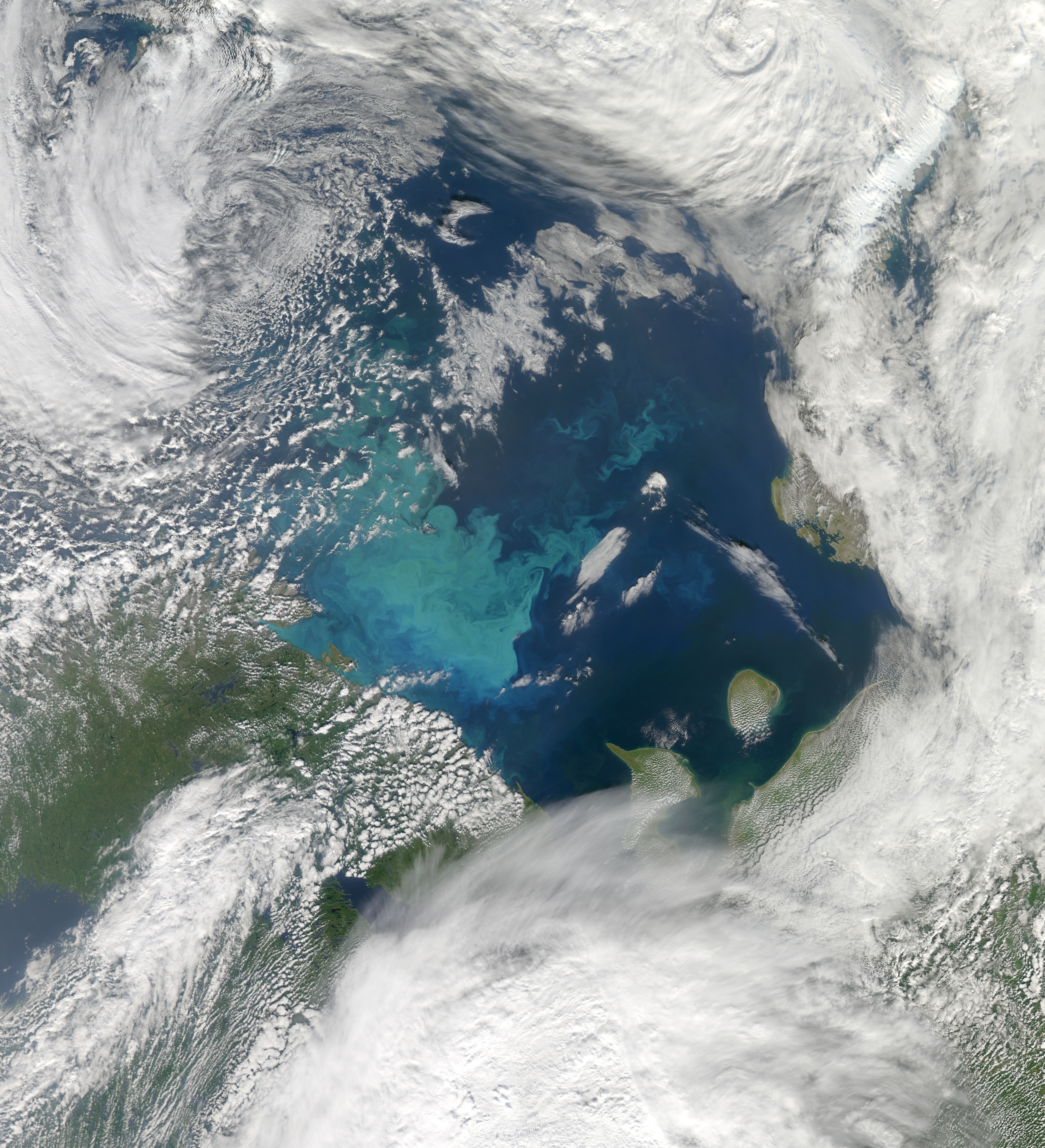 This is an image of a summer phytoplankton bloom in the Barents Sea off the north-westernmost corner of Russia. The milky-blue colour that dominates the bloom suggests that it contains large numbers of coccolithophores, phytoplankton that armour themselves with tiny calcium carbonate scales. Chlorophyll and other light-harvesting pigments from other species of phytoplankton can add darker blues, greens, and reddish-browns to the bloom.